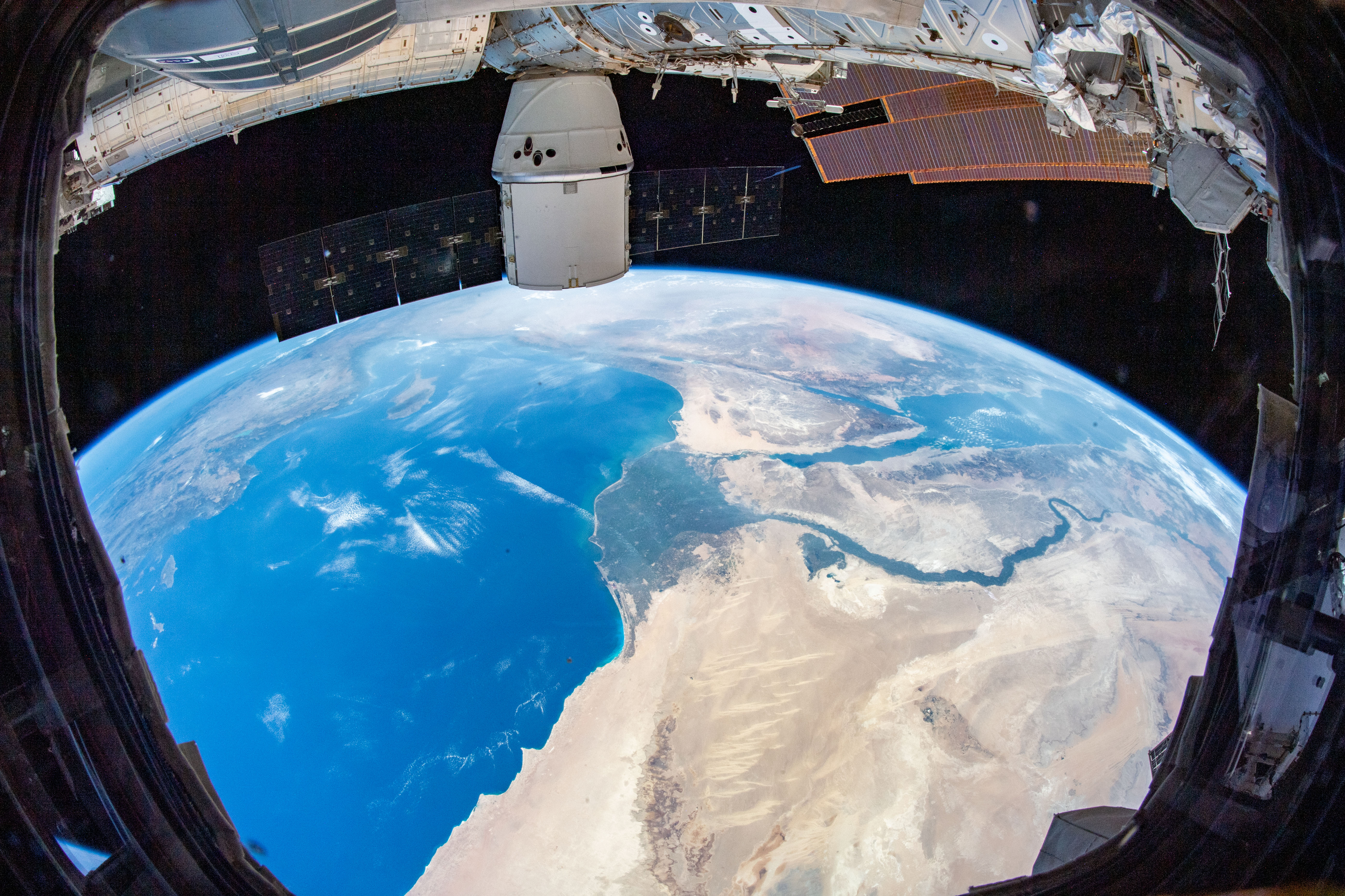 The SpaceX Dragon resupply ship is pictured attached to the International Space Station's Harmony module as the orbital complex flew 260 miles above the Nile River Delta in Egypt.